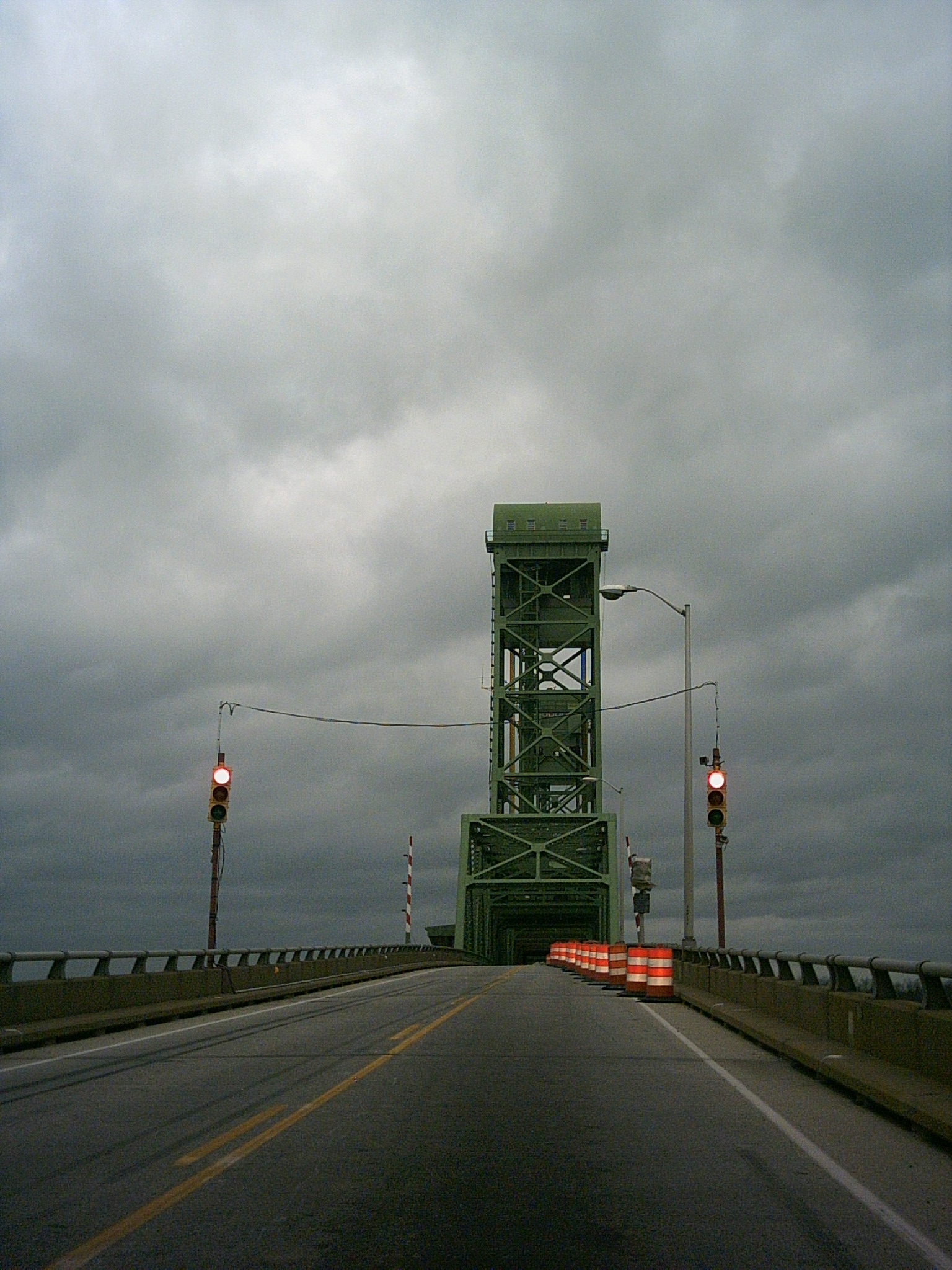 Image taken by me for Wikipedia.